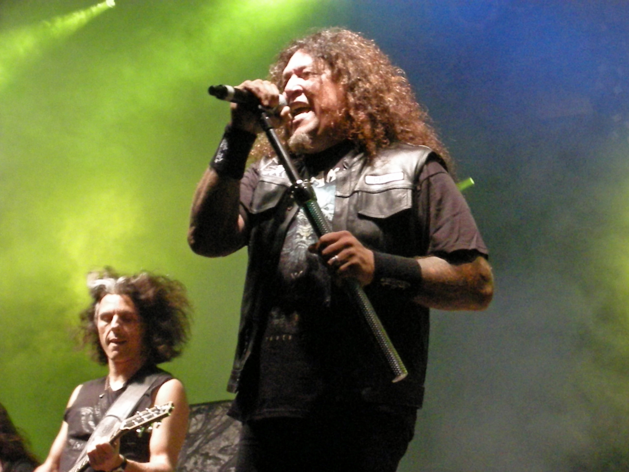 Testament at Skogsröjet 2012